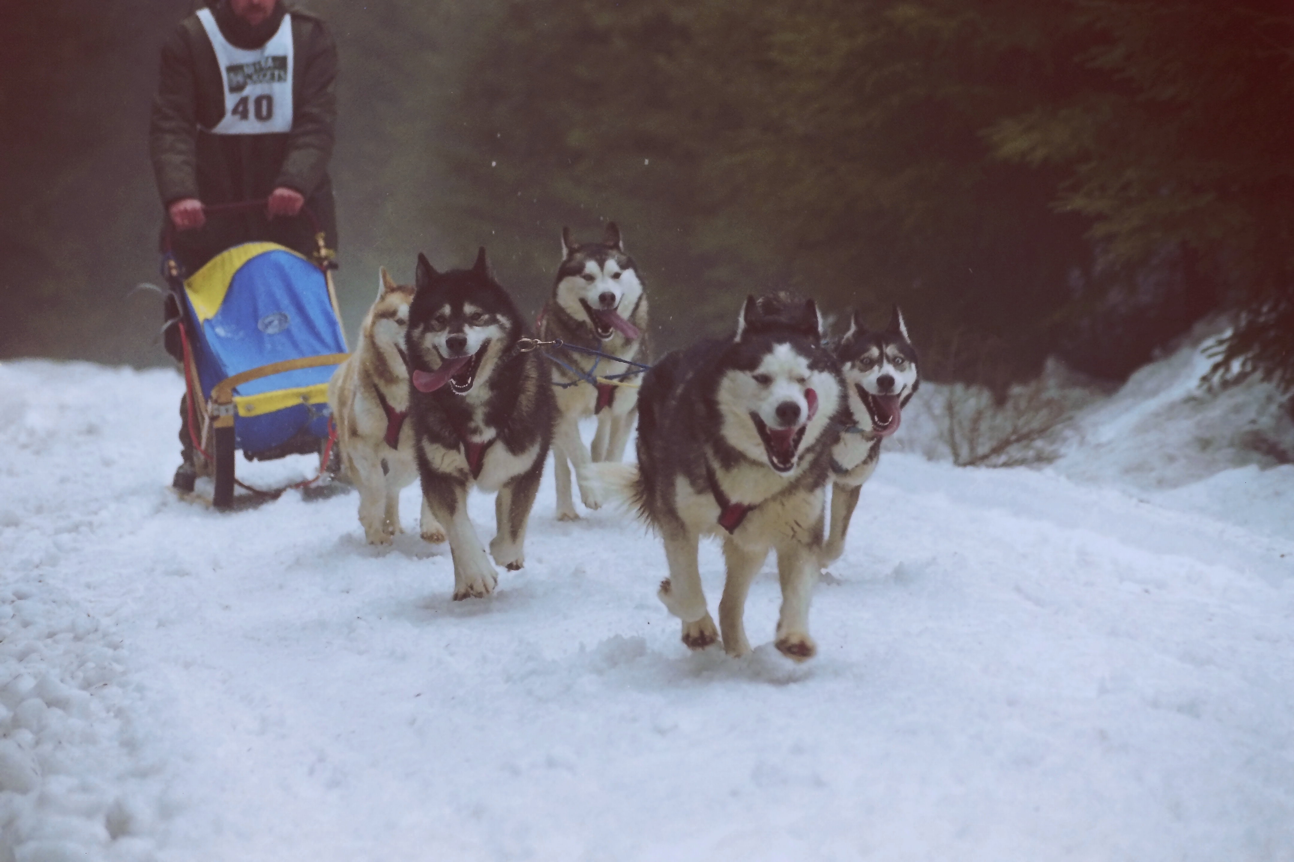 sled dogs